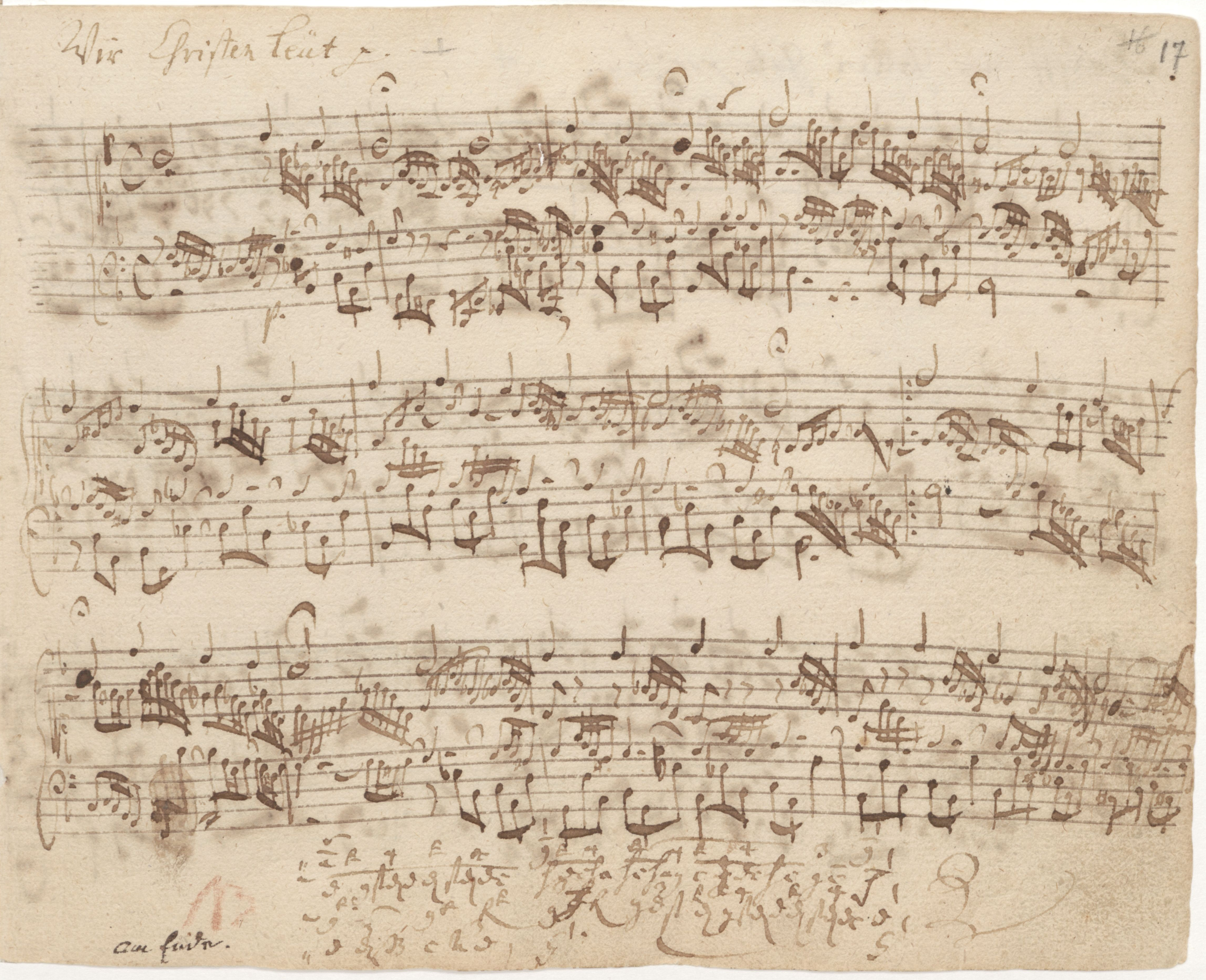 Autograph manuscript of the chorale prelude Wir Chirstenleut, BWV 612 from Orgelbüchlein. Everything, except the last 2 1/2 bars, is in the handwriting of J.S. Bach.